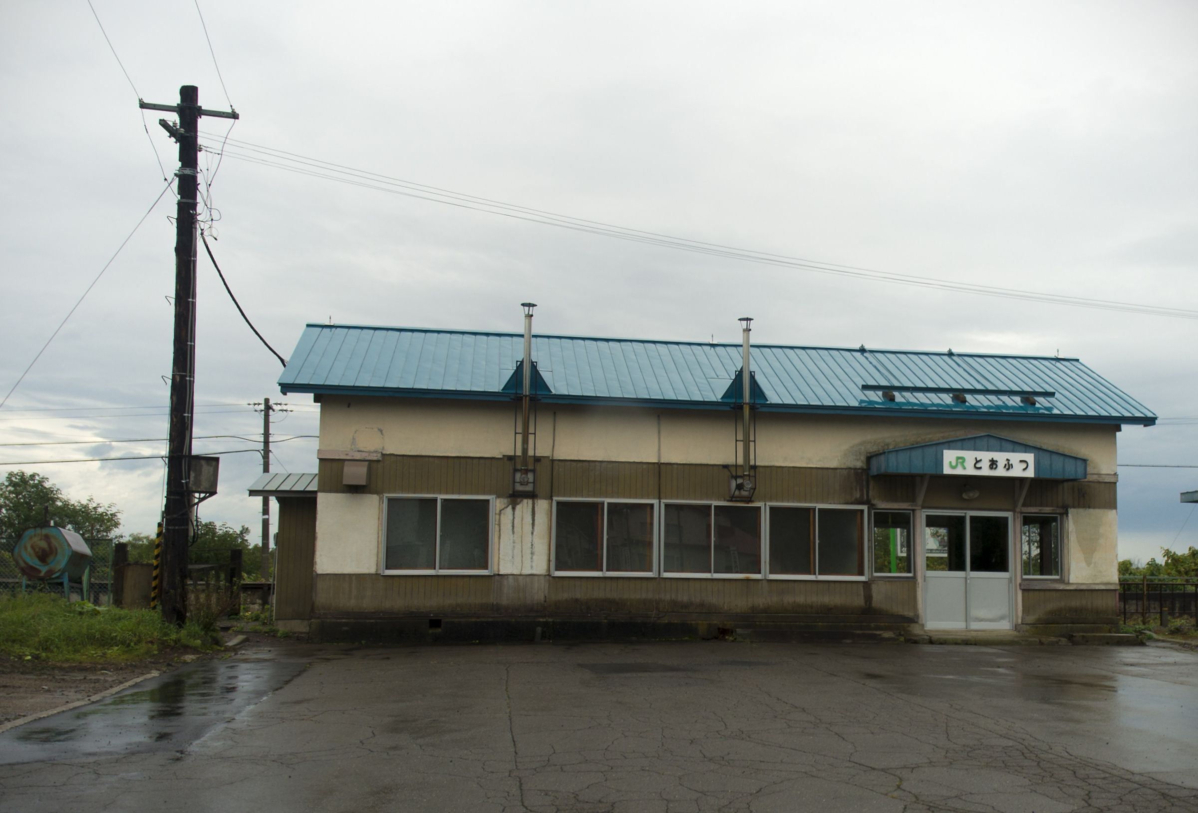 Tofutsu Station on the Hokkaido Railway (JR Hokkaido) Nemuro Line